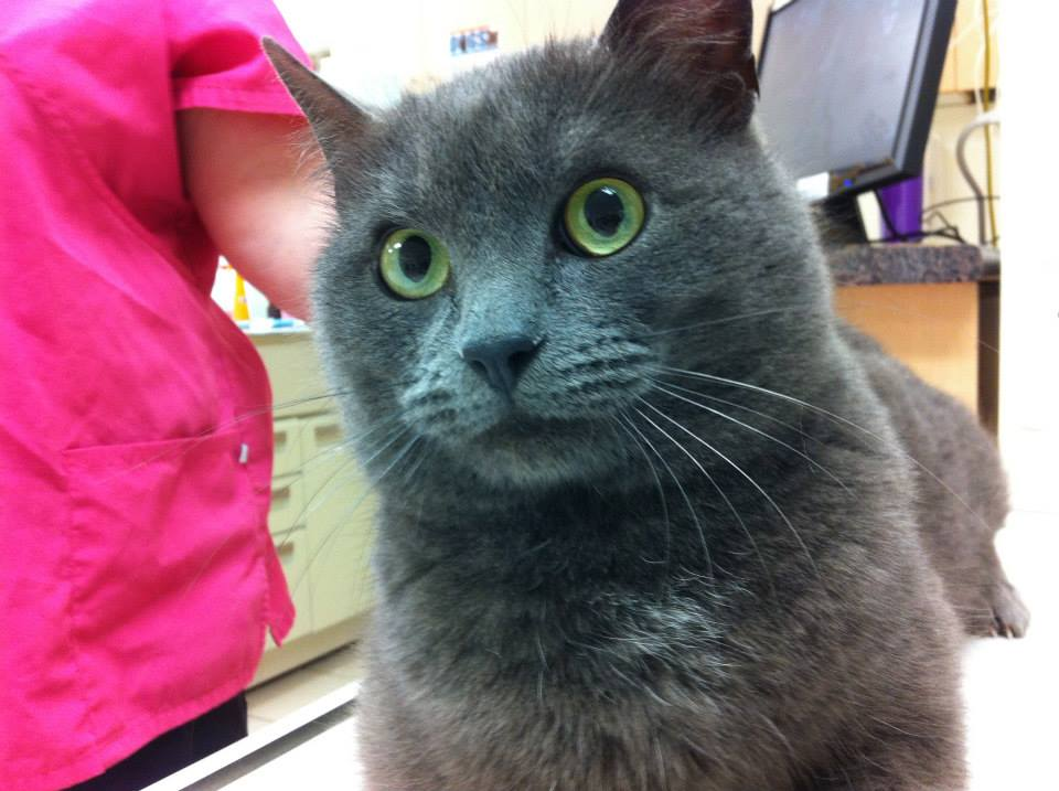 Vancouver Orphan Kitten Rescue Association arranges for Blue to see the vet in December 2013 after he was found on the streets with an infected tail. Vancouver Orphan Kitten Rescue Association